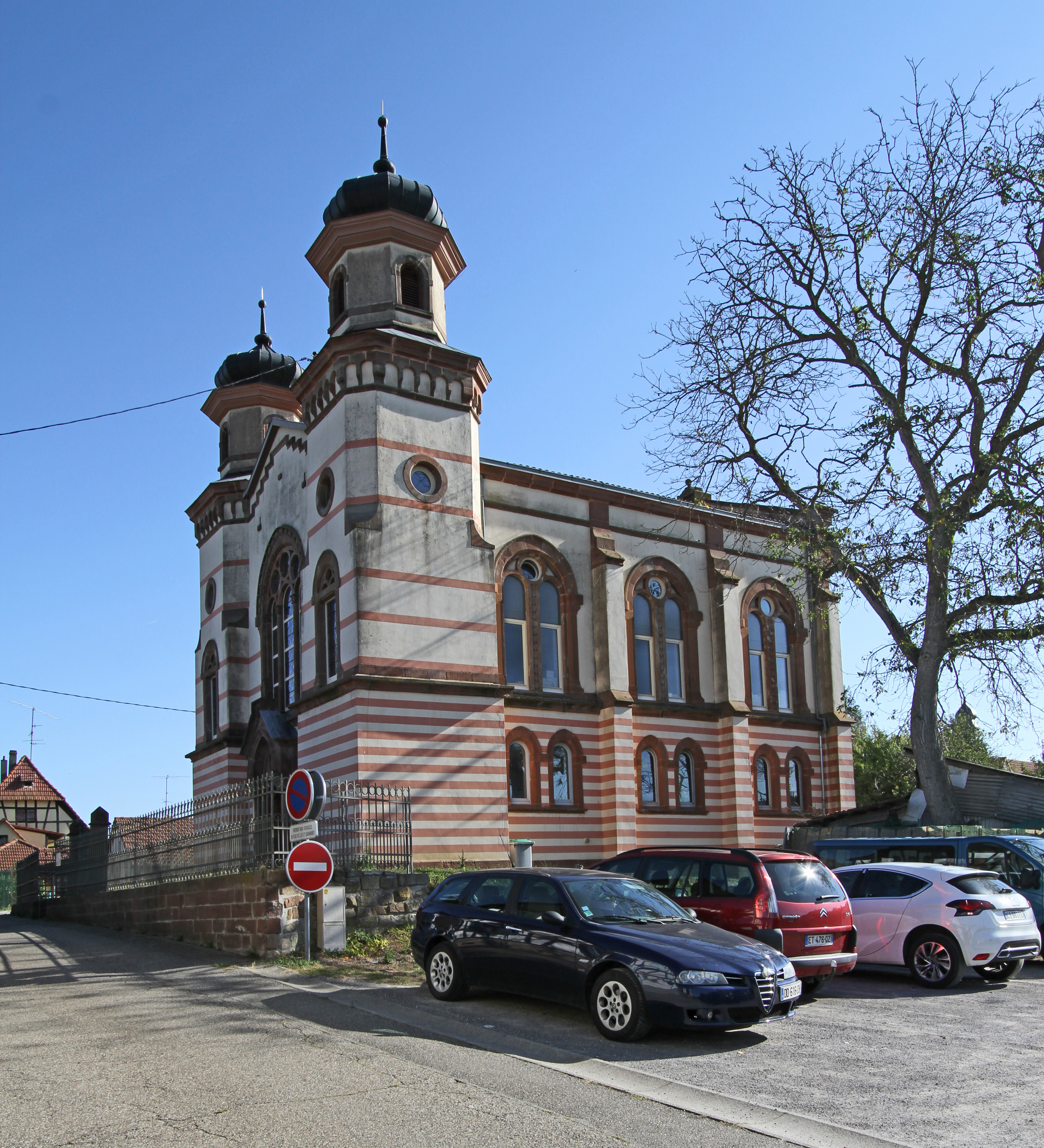 Synagogue in Soultz-sous-Forêts.